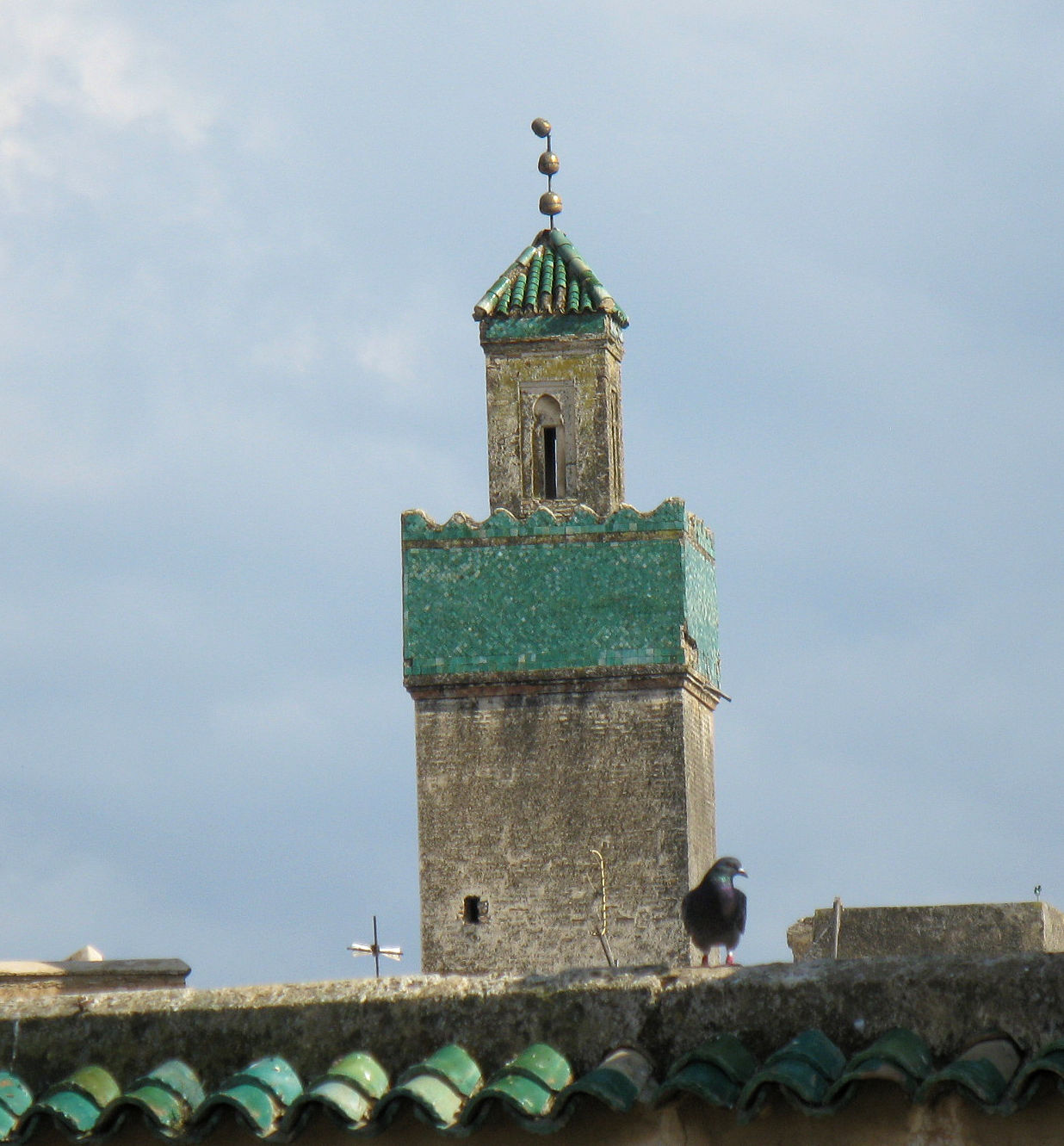 Minaret of the Zawiya of Sidi Taoudi Ben Souda (or Bensouda Mosque), Fes el Bali.